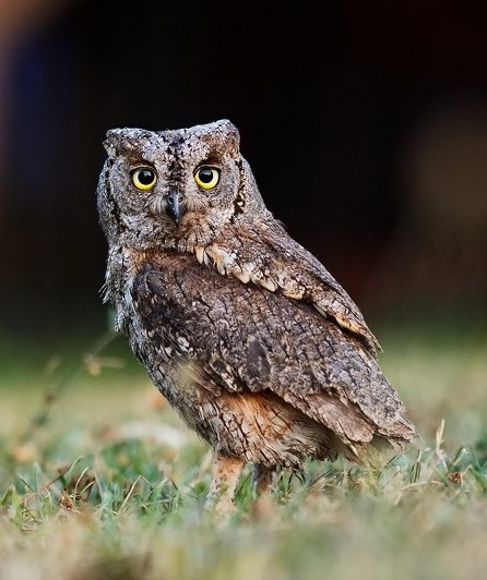 Cuk na livadi